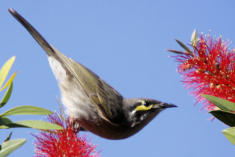 Yellow-faced Honeyeater, Lichenostomus chrysops, in a Callistemon